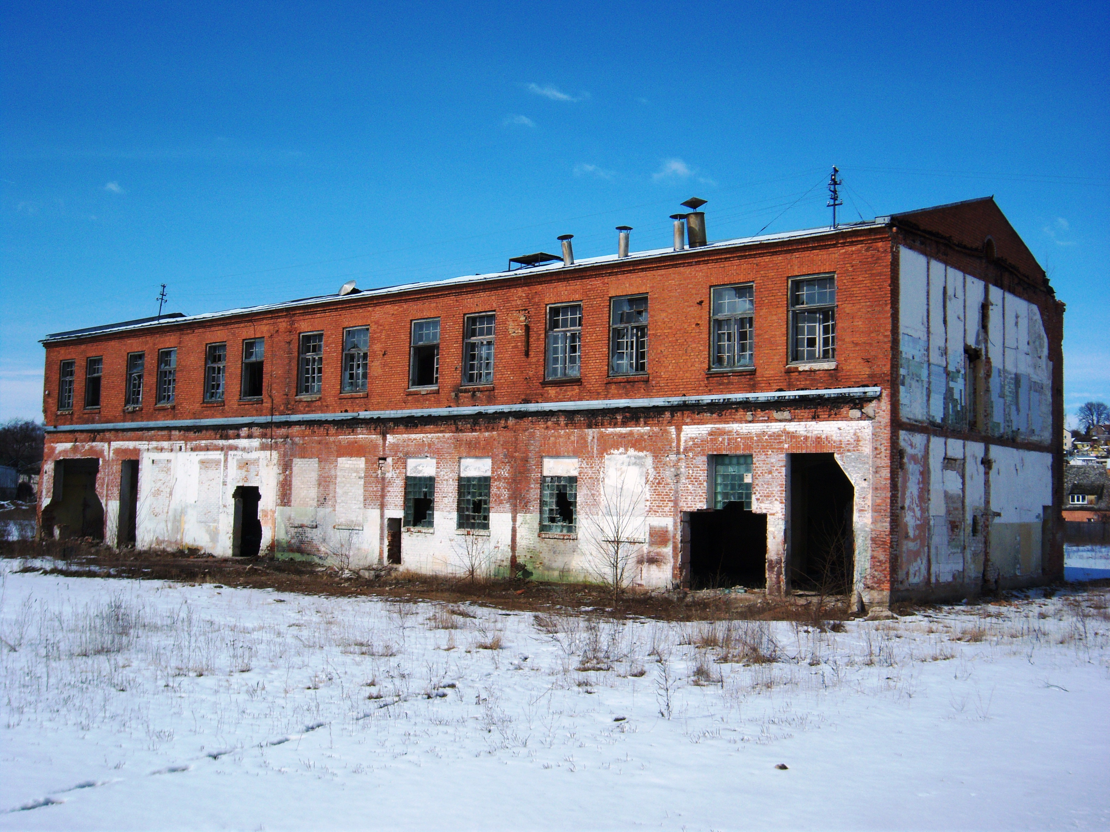 Former safety matches manufacturer Liepsna, Kaunas, Lithuania